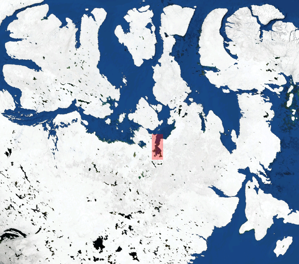 Chantrey Inlet